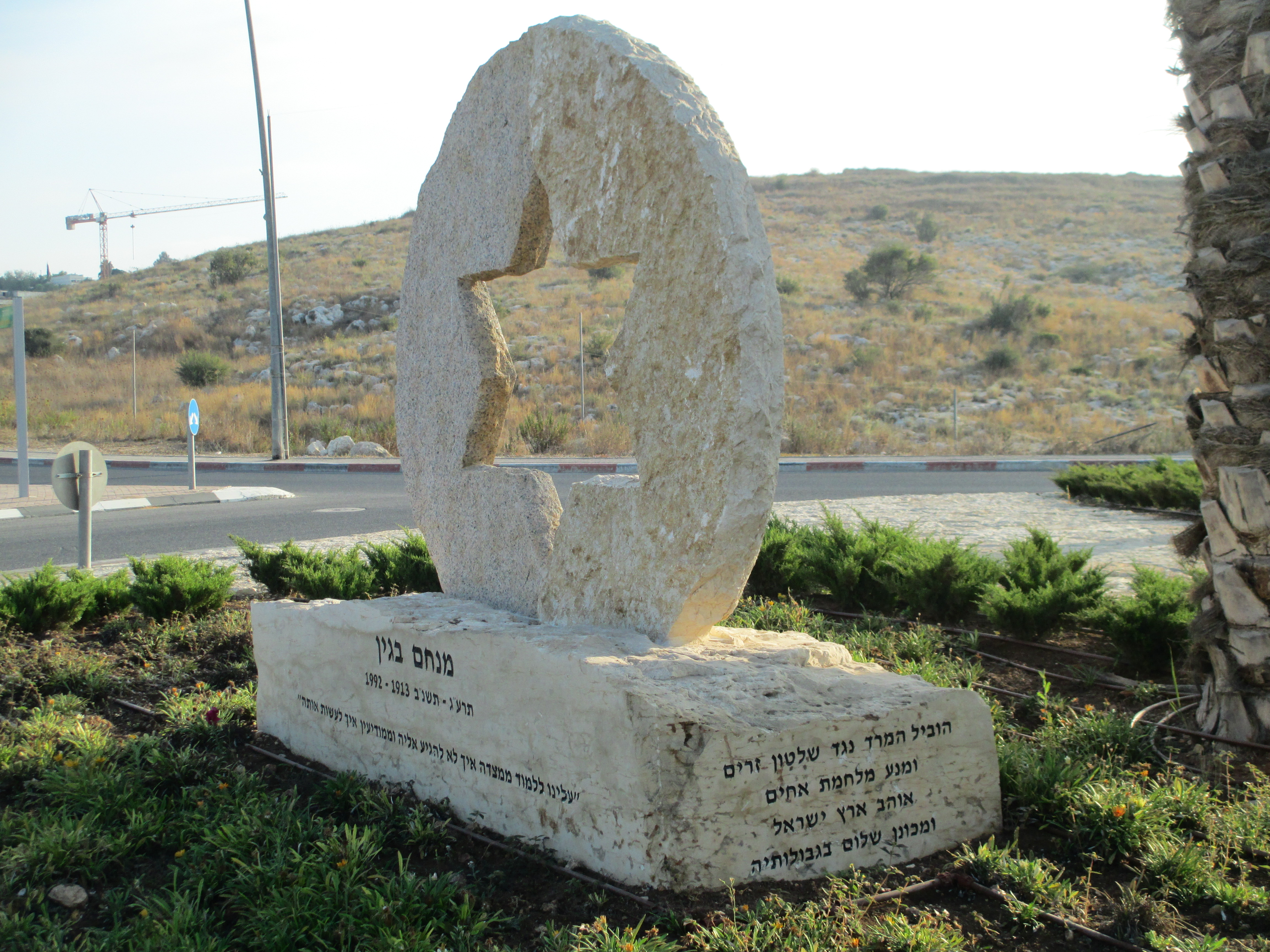 Menachem Begin square in Modi'in